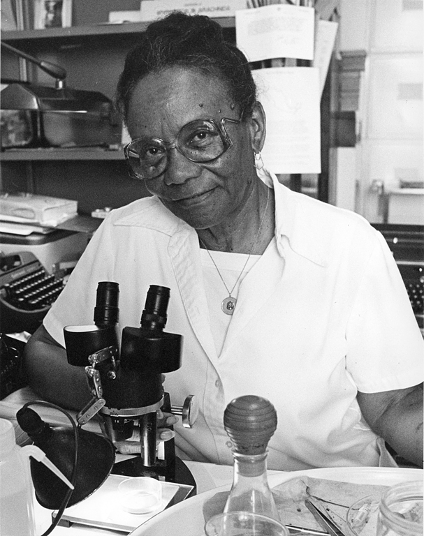 Sophie Lutterlough, hired in 1943 as the Smithsonian's first female elevator operator, sits in front of a microscope in the Department of Entomology. After 40 years of service to the National Museum of Natural History, Lutterlough retired in 1983. For 14 years Lutterlough ran the elevators, but moved on to a second career after asking Dr. J. F. Gates Clarke if there were any openings in his department. Clarke hired Lutterlough as an insect preparator. During the next 26 years in the department, she took college level courses to increase her knowledge of entomology and learned German to help with her work. Featured in Smithsonian newsletter, TORCH.